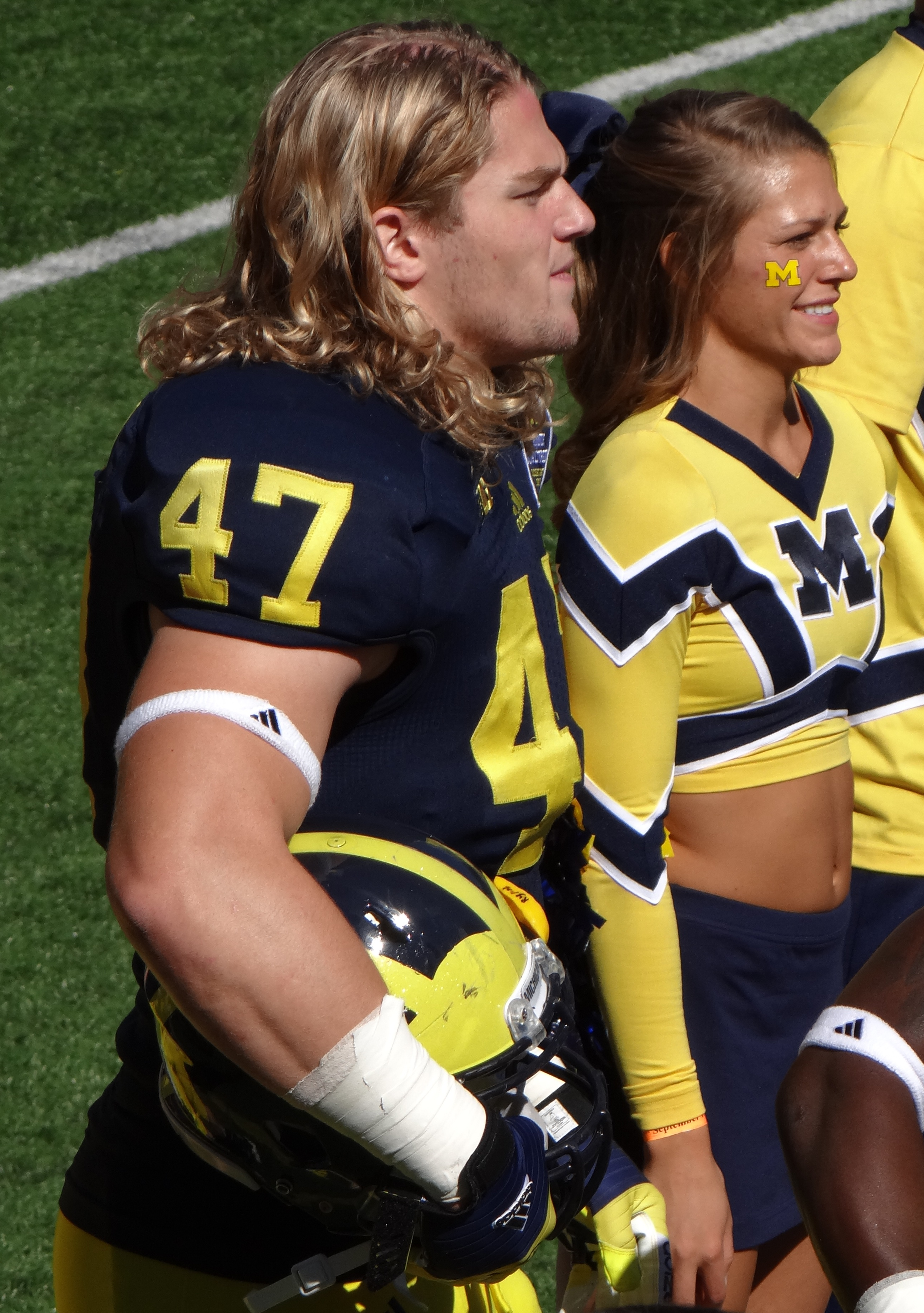 Michigan linebacker Jake Ryan with A Michigan cheerleader